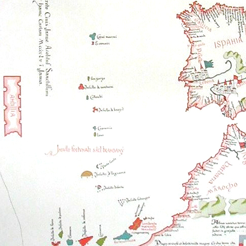 Hand-drawn reproduction of segment of original sea chart, showing the island of Antillia